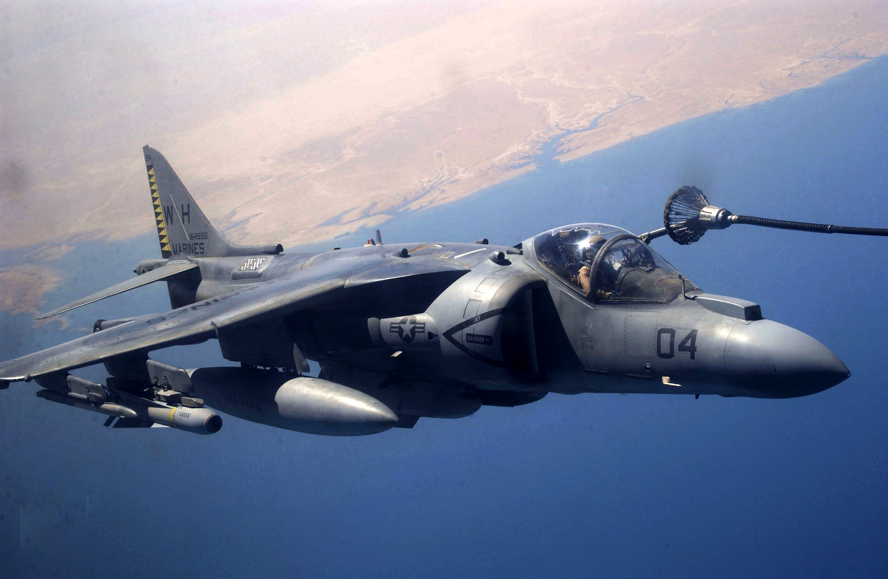 An AV-8B Harrier II piloted by Lt. Col. Russell A. Sanborn, commanding officer, Marine Attack Squadron 542, refuels in-flight over Buhayrat ath Tharthar, the largest lake in Iraq, from a refueling boom and drogue descending from a KC-130T Hercules tanker with Marine Aerial Refueler Transport Squadron 452 Sept. 22. After refueling, the Harrier rejoined its section to continue a combat mission over the Iraqi city of Fallujah. Photo by Cpl. Paul Leicht